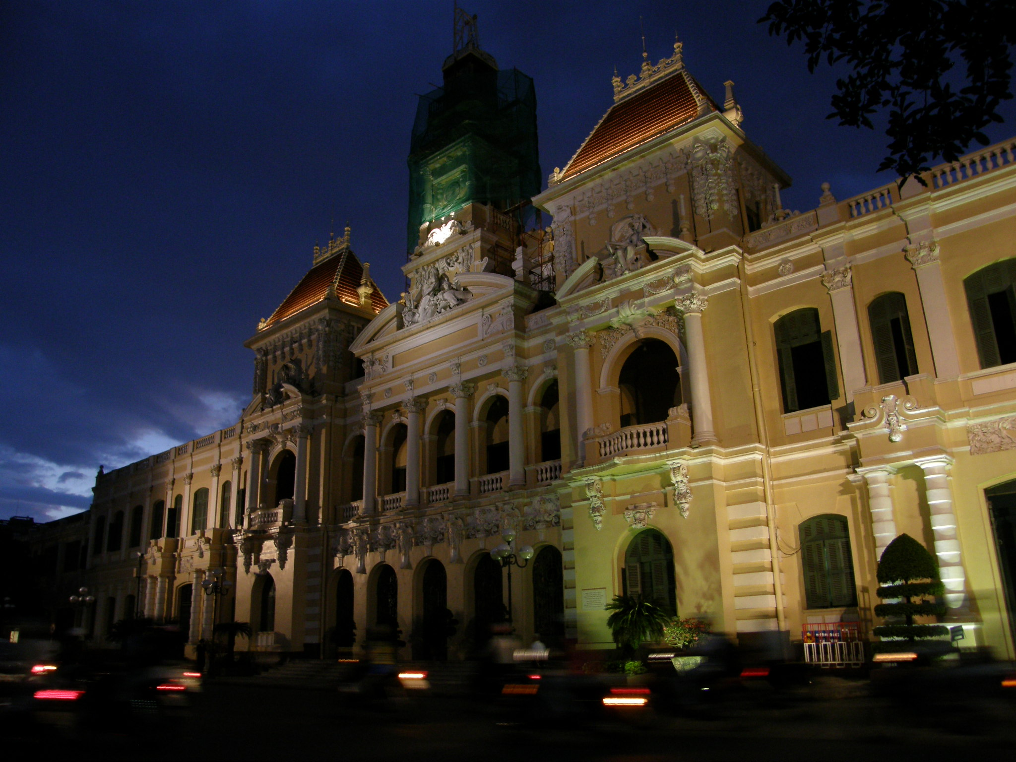 住所：Le Thanh ton Rd. and Pasteur Rd. Dist 1 空港情報： ホーチミンシティ / ホーチミンシティ 交通： 市民劇場から徒歩3分